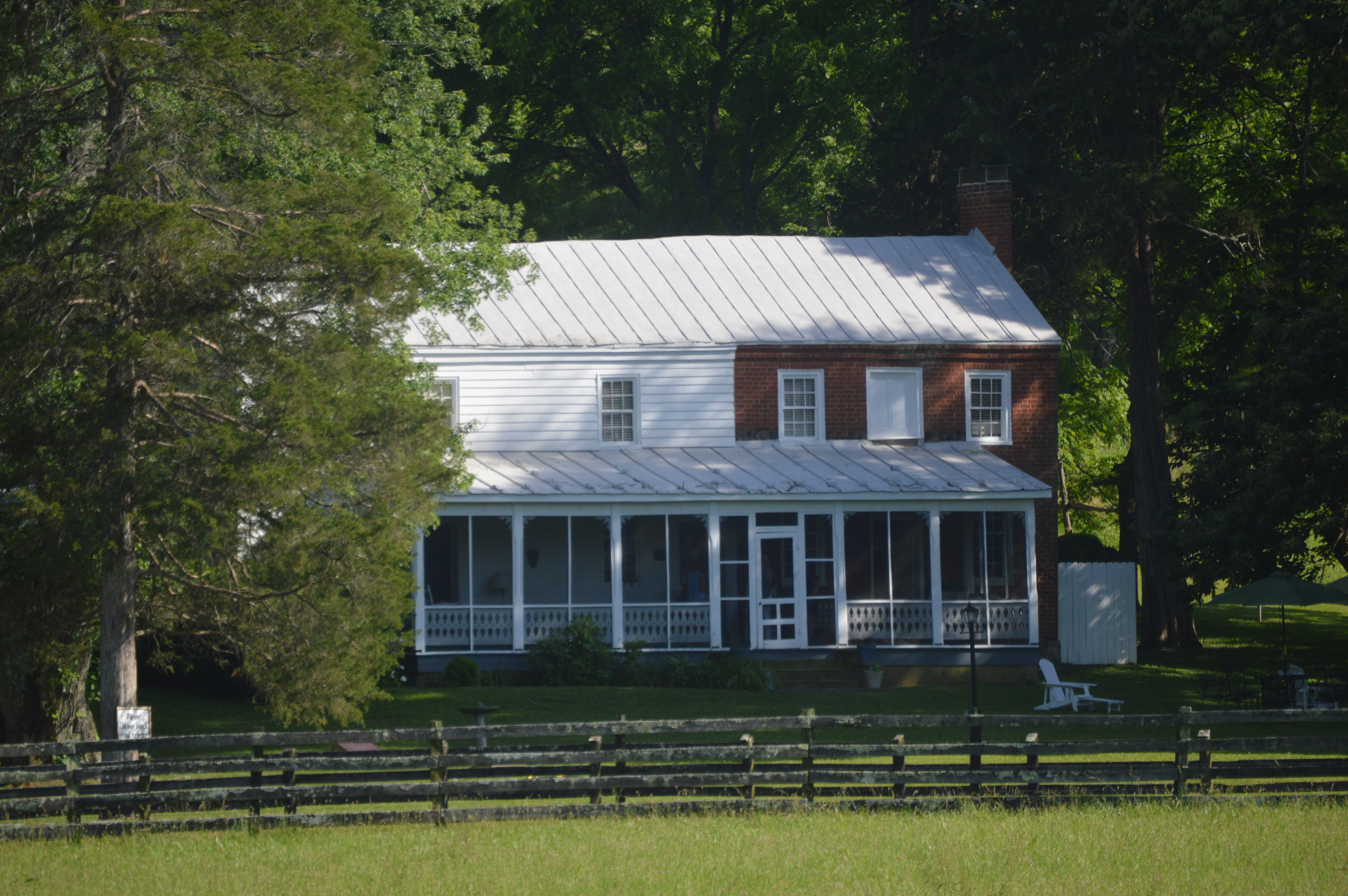 Front of the George Washington Rader House, located at 8910 U.S. Route 11 southeast of Fincastle in Botetourt County, Virginia, United States. Built in 1820, it is listed on the National Register of Historic Places.